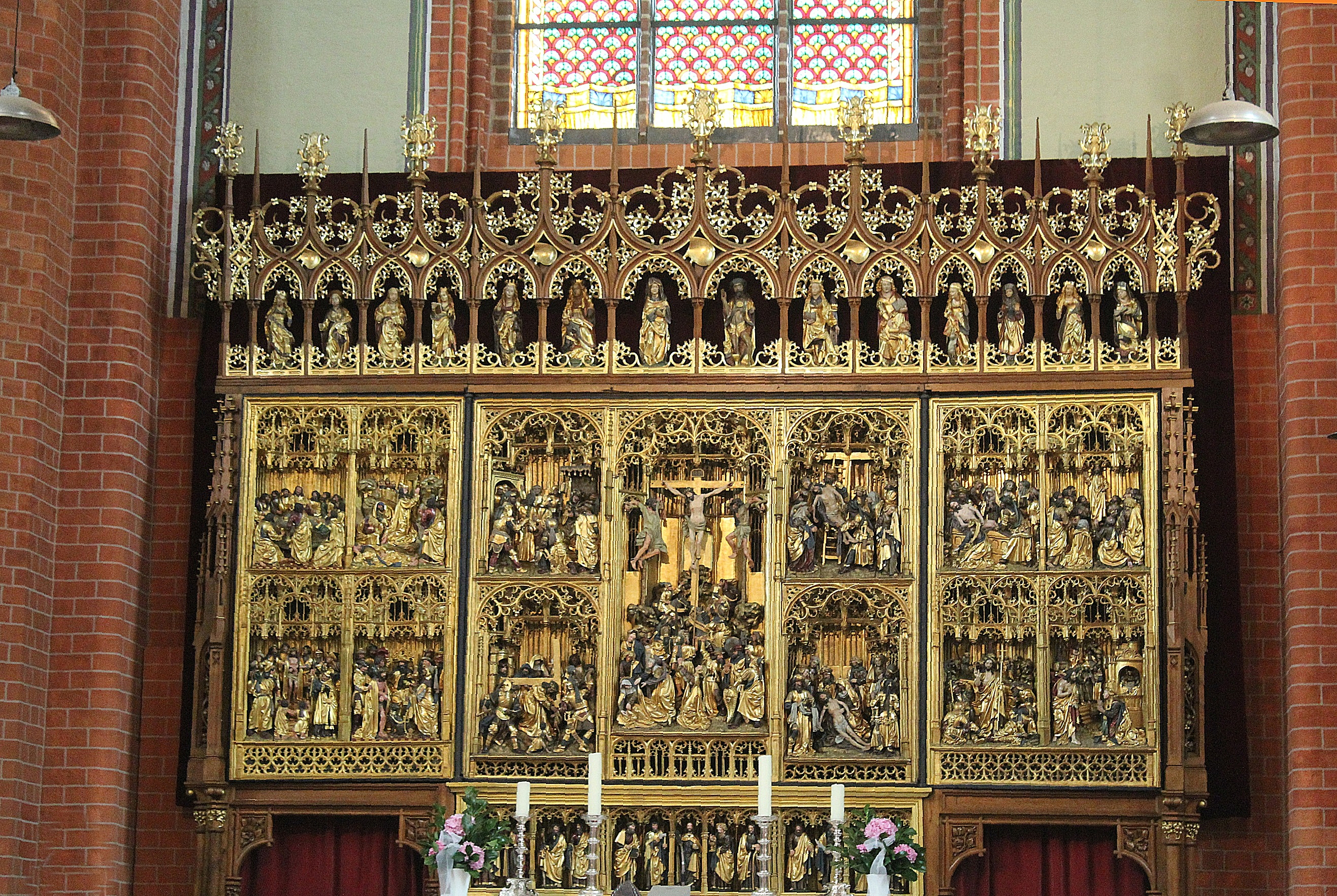 Güstrow, Saint Mary church, the high altar. The high altar was made in 1522 in Jan Borman's workshop in Brussels. Barlachstadt Güstrow is a town in Mecklenburg-Western Pomerania in northern Germany located about 45 km south of Rostock.